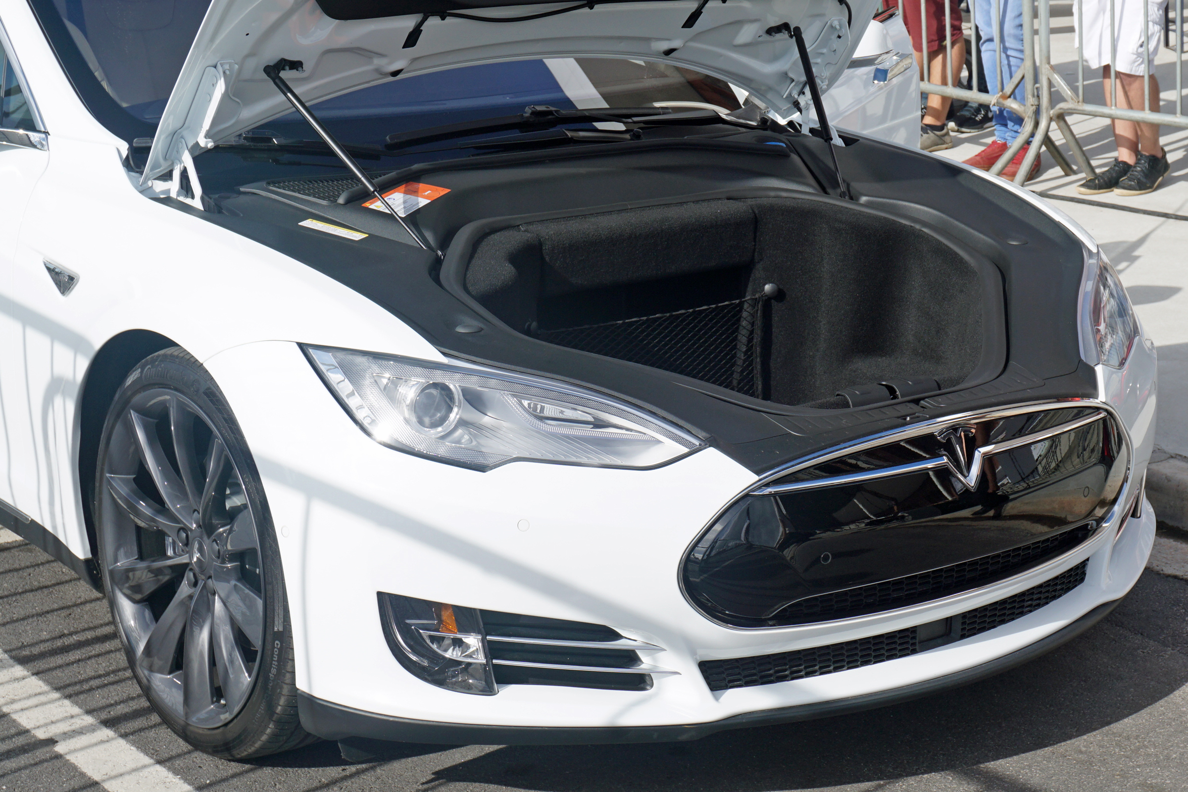 Tesla Model S P70 exhibited at the Salão Internacional do Automóvel 2016 São Paulo, Brazil